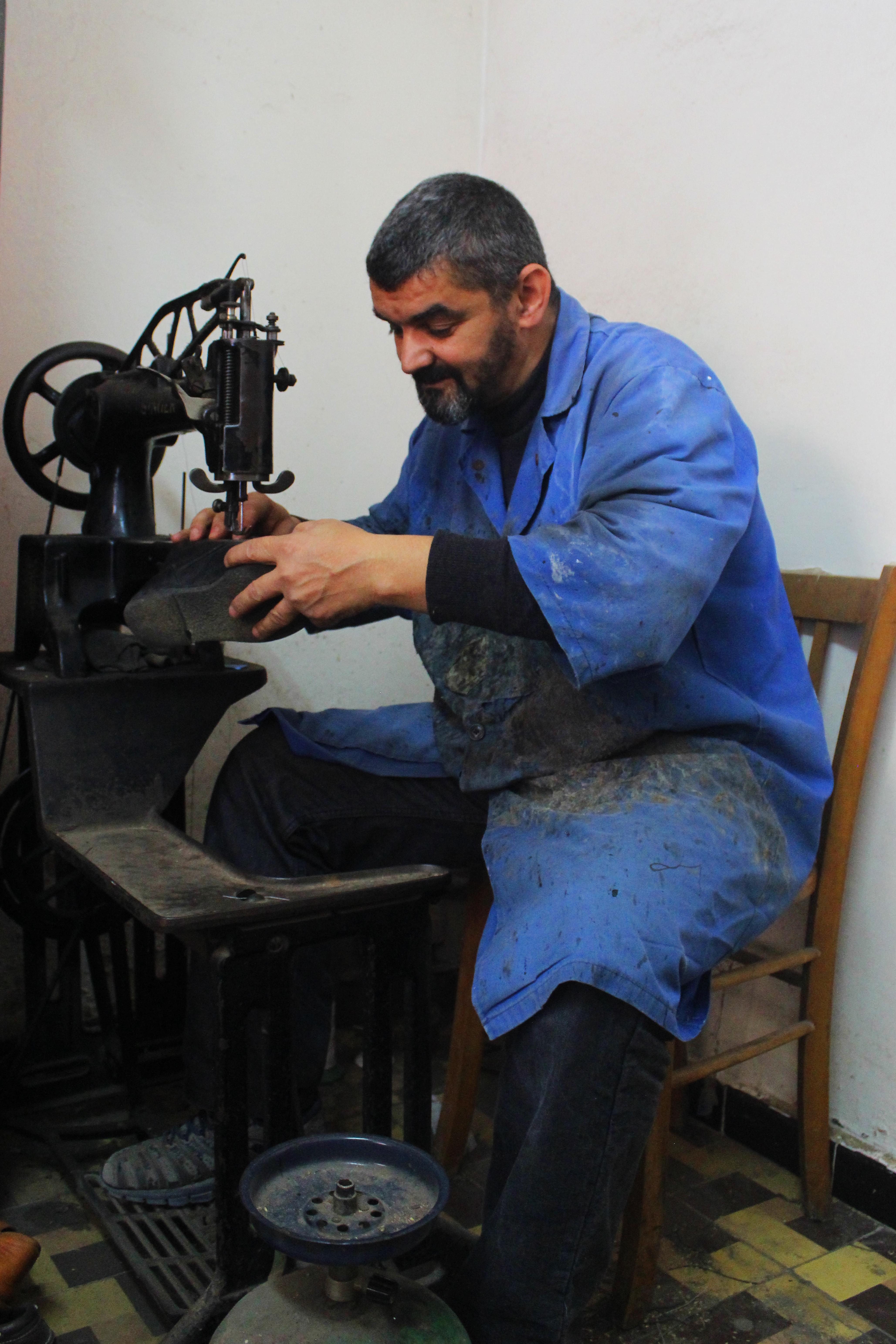 This is an image of "African people at work" from Algeria